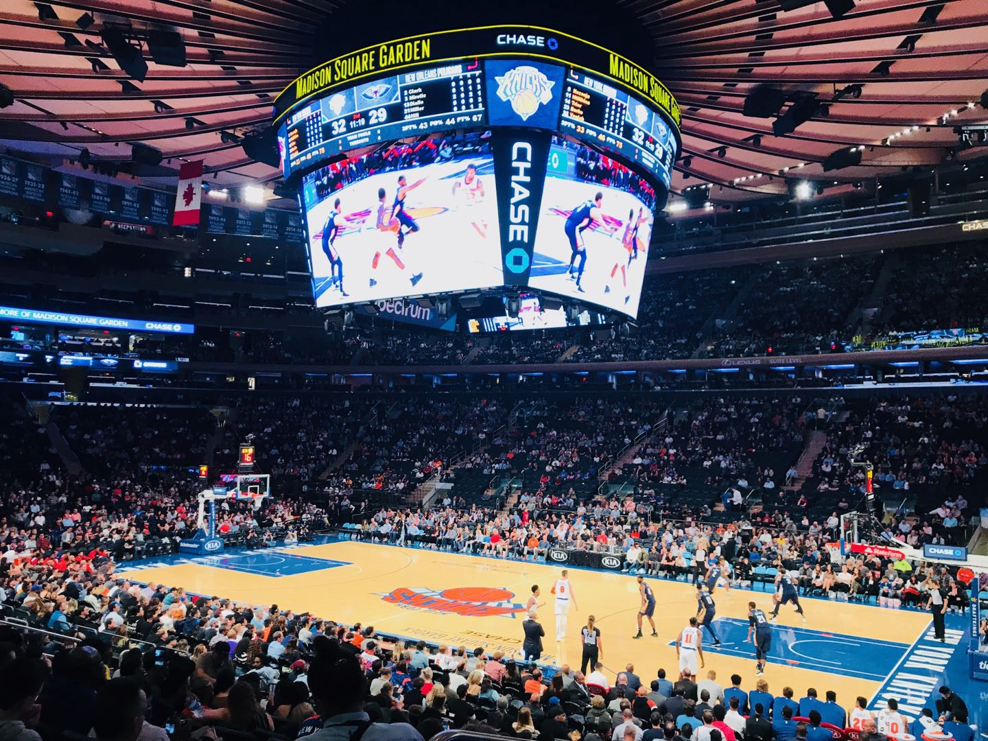 The New Orleans Pelicans play the New York Knicks at Madison Square Garden on October 5, 2018.